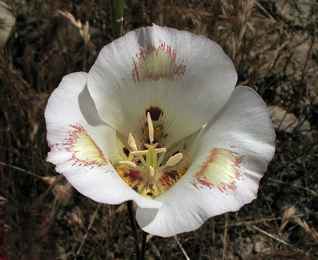 Calochortus venustus — Mariposa lily. Taken at Triunfo Canyon Park, near Triunfo Canyon Road, in grassland habitat — Santa Monica Mountains National Recreation Area, California.